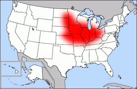 Public domain map courtesy of The General Libraries, The University of Texas at Austin, modified (by • Benc • 00:30, 13 Aug 2004 (UTC)) to highlight regions.